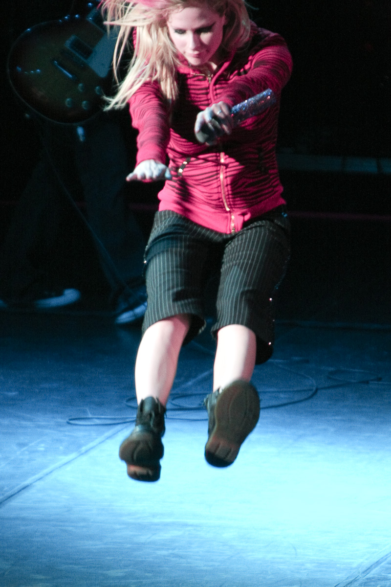 Avril Lavigne "The Best Damn Tour", Beijing Wukesong Arena, October 2008